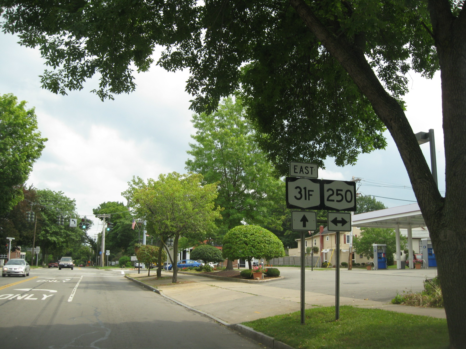 New York State Route 31F heading eastbound approaching the intersection with New York State Route 250 in Fairport, New York.